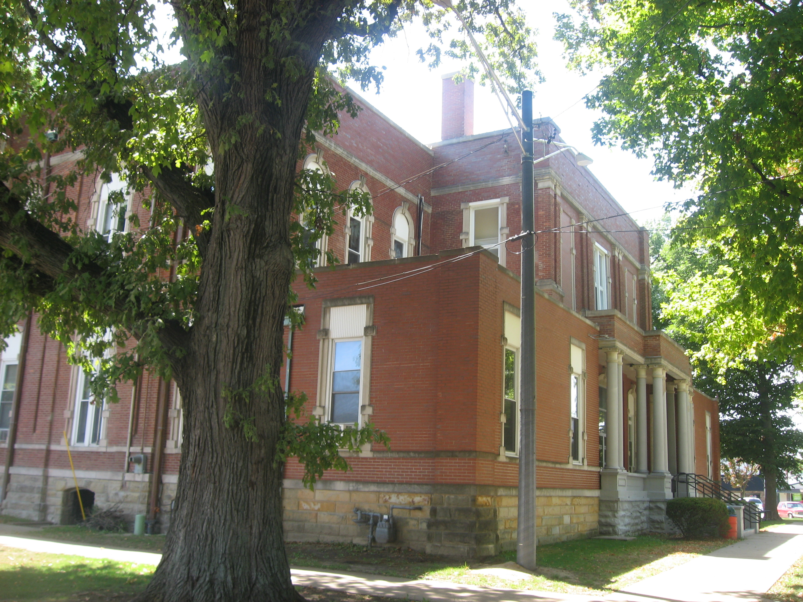 Front of the Jasper County Courthouse, located along Illinois Routes 33 and 130 on Courthouse Square in Newton, Illinois, United States. It was built in 1877.